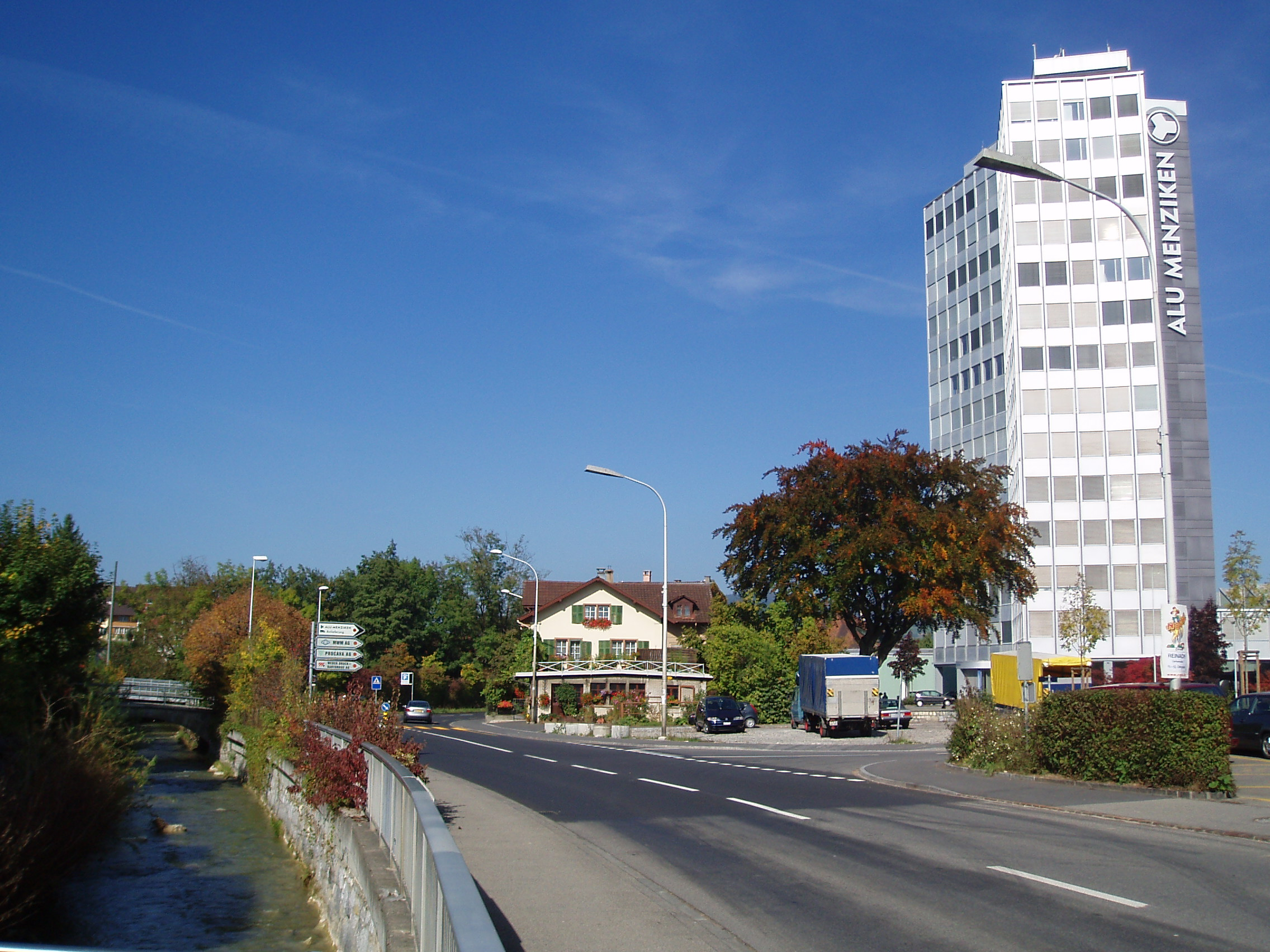 From left to right: River Wyna Main street "Aluminium Hochhaus", the tallest building of Menziken, Switzerland (headquarter of Alu Menziken Gruppe)